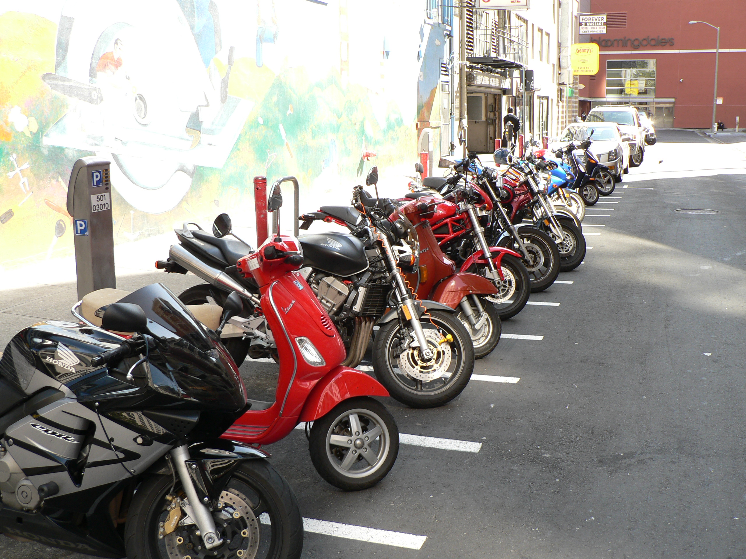 Line of motorcycles and scooters